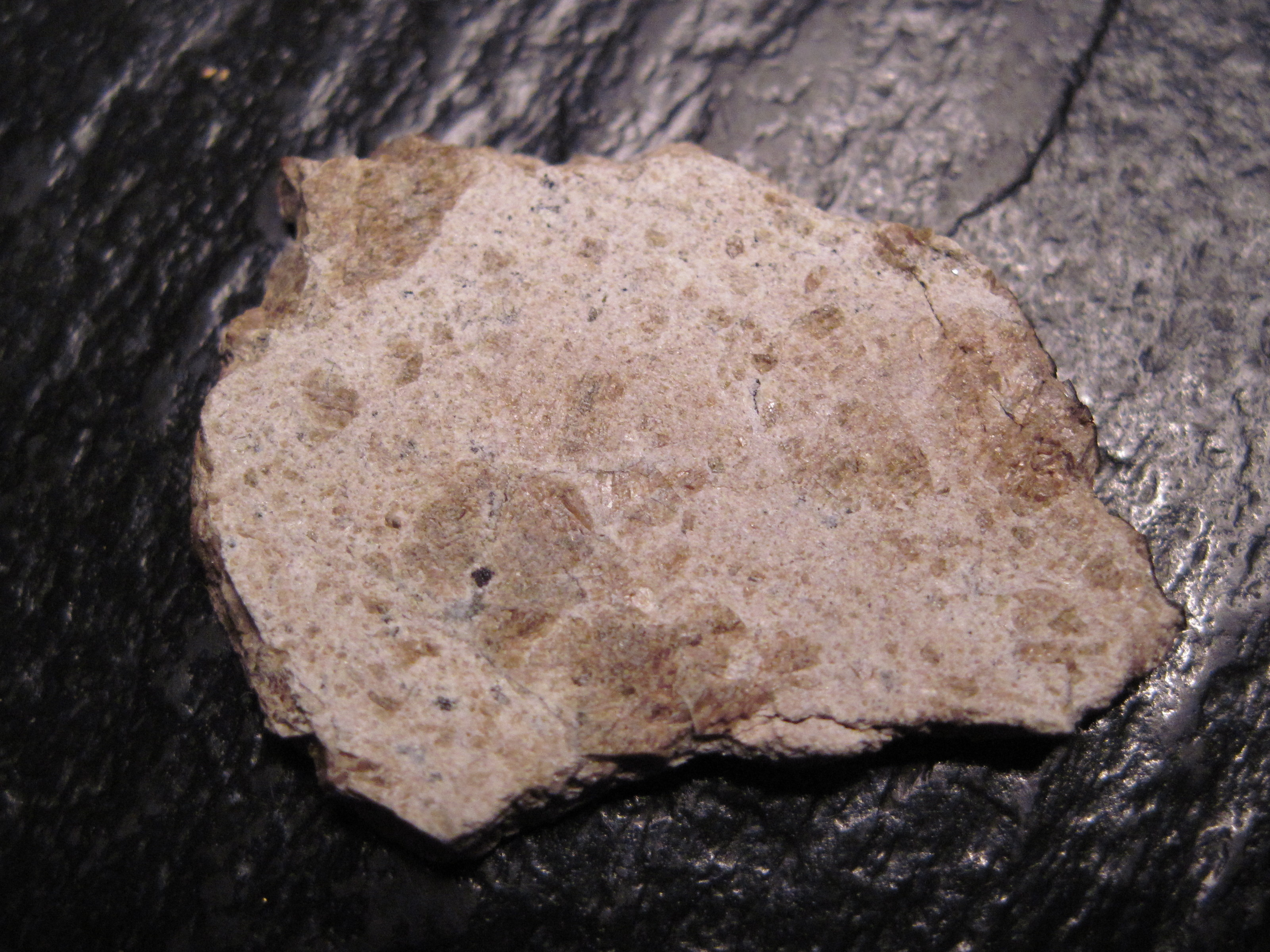 4.3 gram slice of this diogenite achondrite that was a witnessed fall in 1999 in Burkina Faso, Africa. Thought to originate from the Vesta asteroid, Bilanga has a TKW of ~25 kgs. This relatively rare specimen has an interesting light matrix and small amount of fusion crust along one edge.